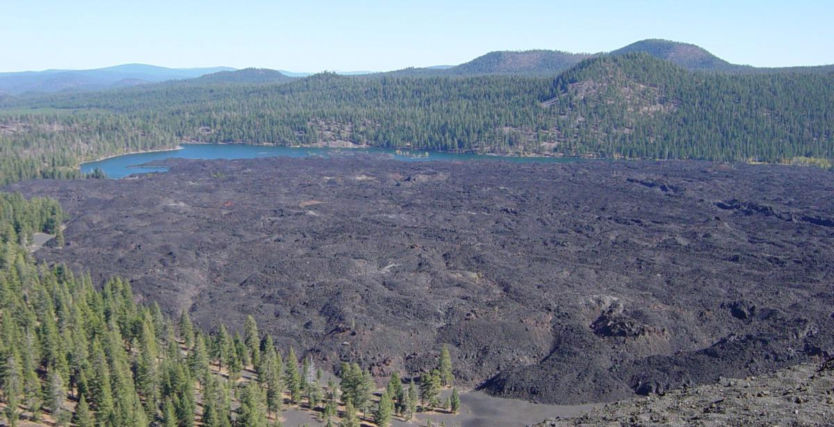 The Fantastic Lava Beds as seen from Cinder Cone in Lassen Volcanic National Park. The body of water in the background of the picture is Butte Lake.